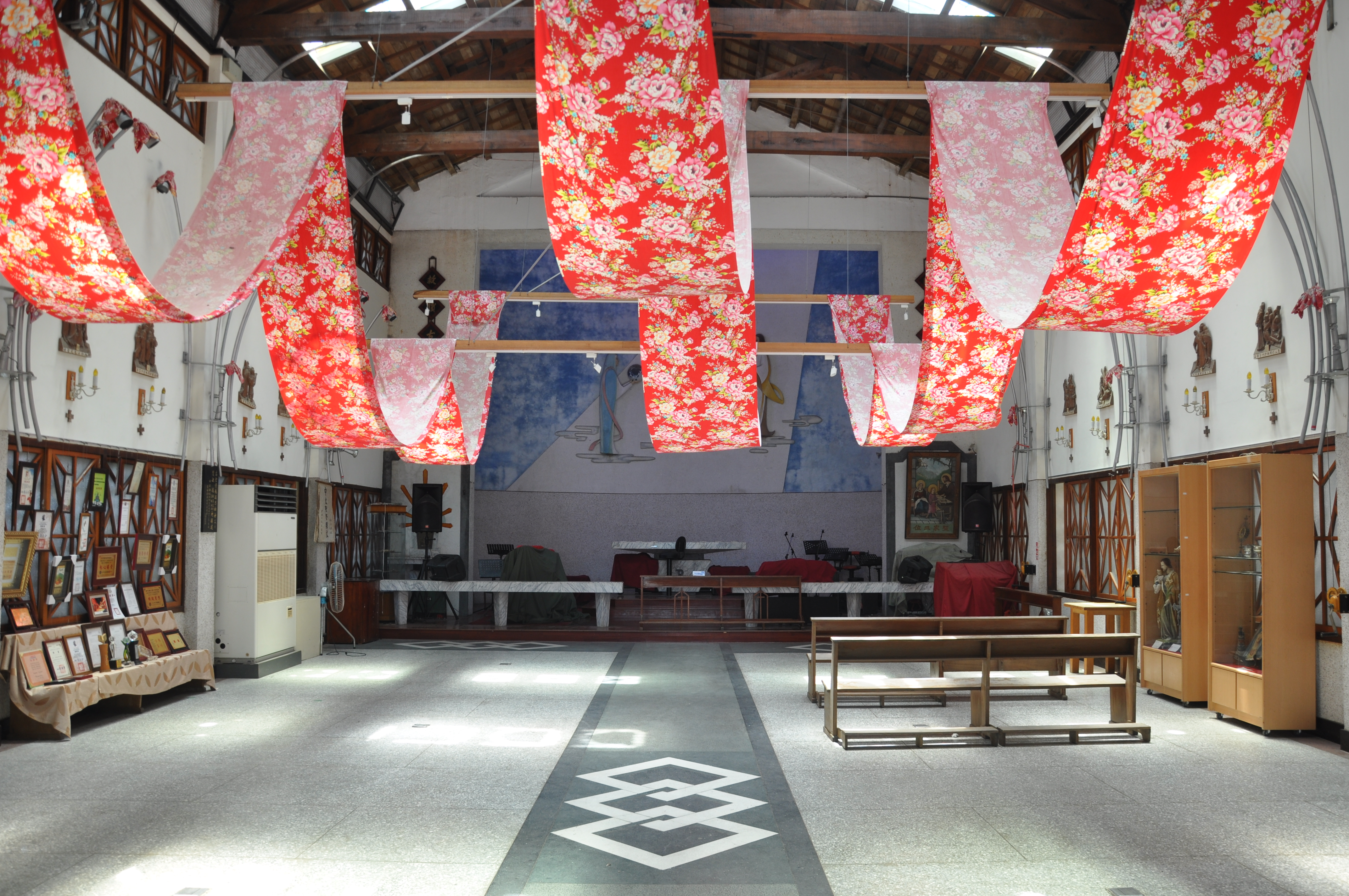 Interior of Hukou Old Church.